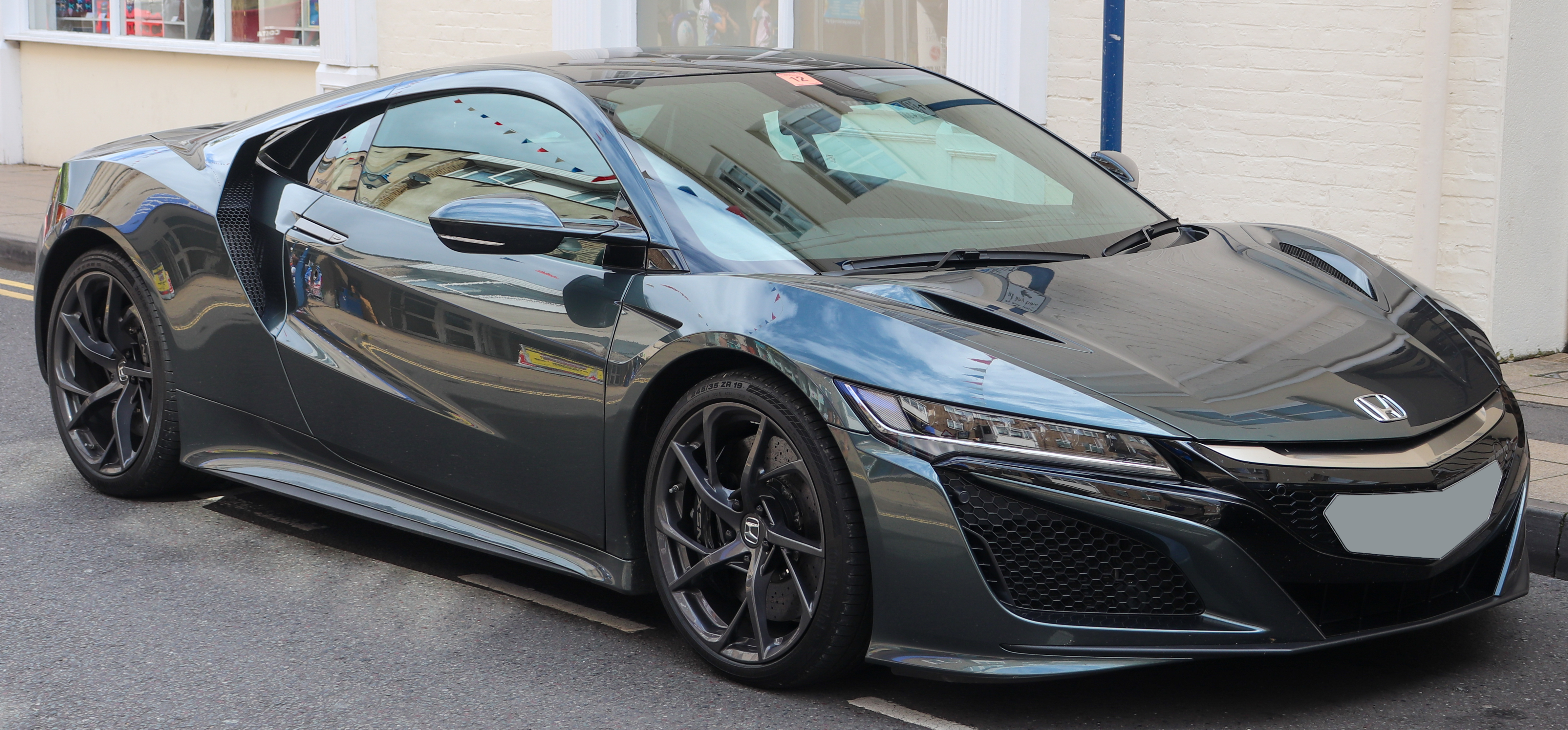 2017 Honda NSX 3.5 Front Taken in Warwick